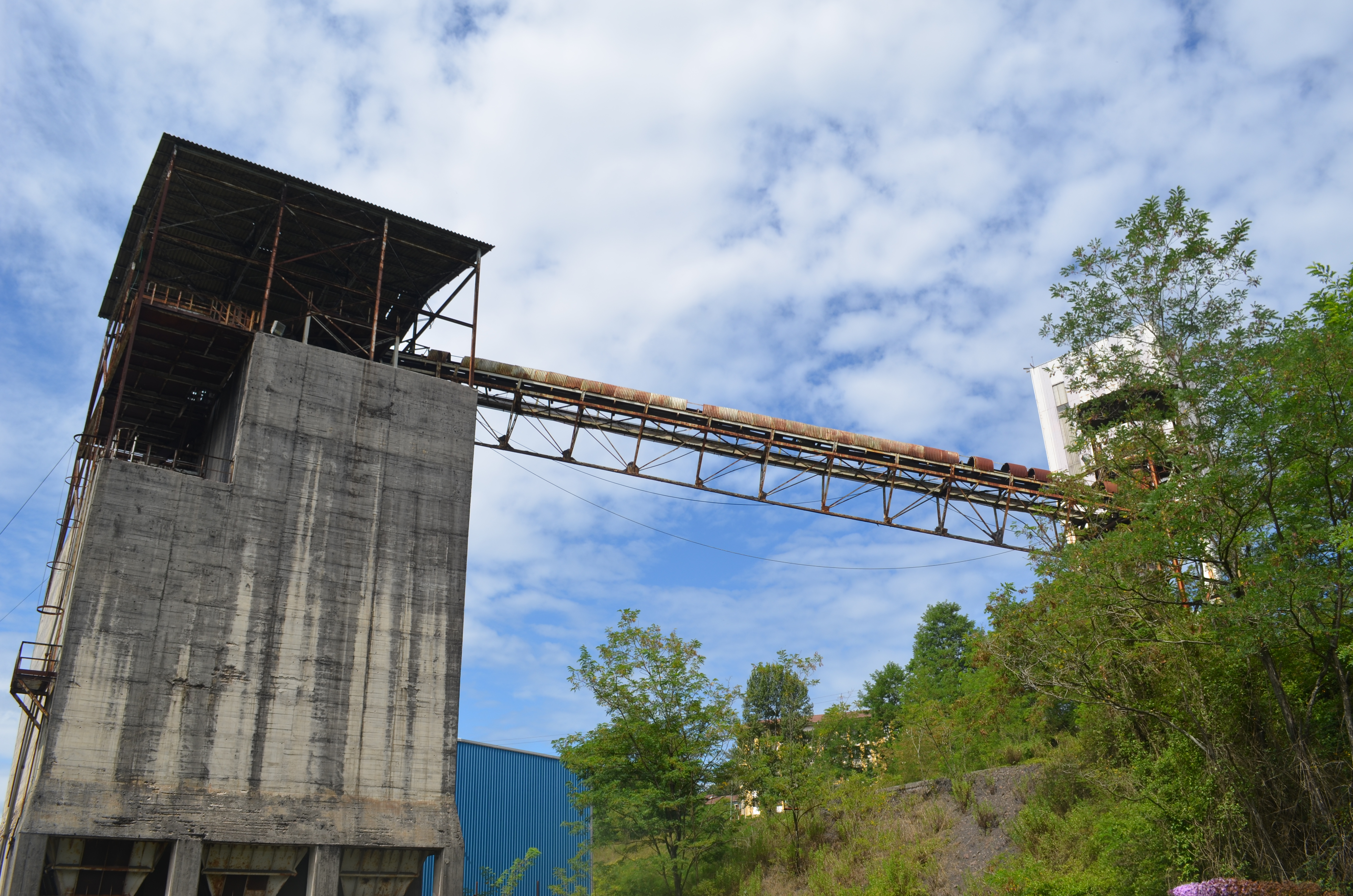 Old Santa Eulalia coal mine in La Felguera, north Spain